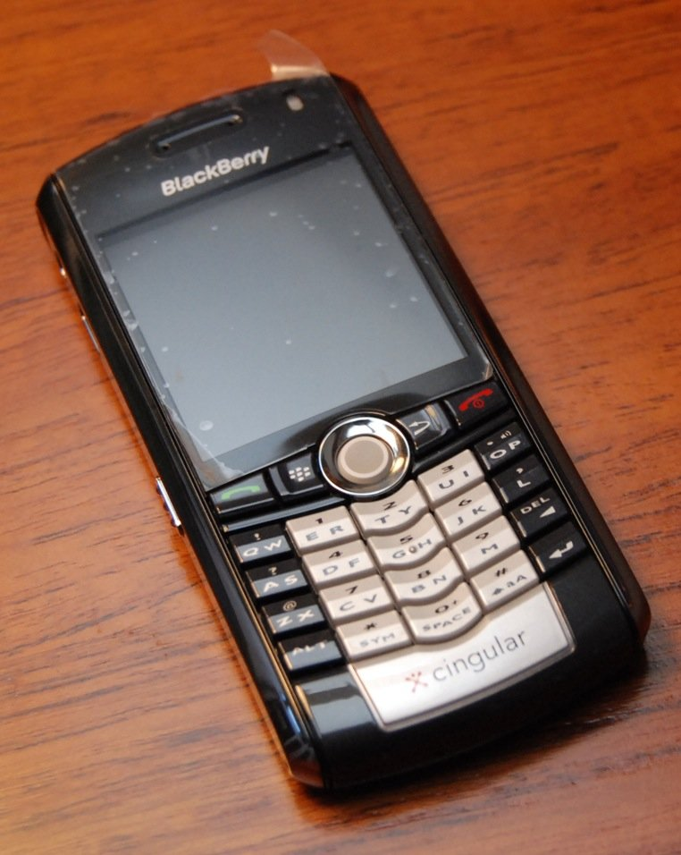 GSM cellular phone BlackBerry PearlNew Blackberry Pearl from Cingular